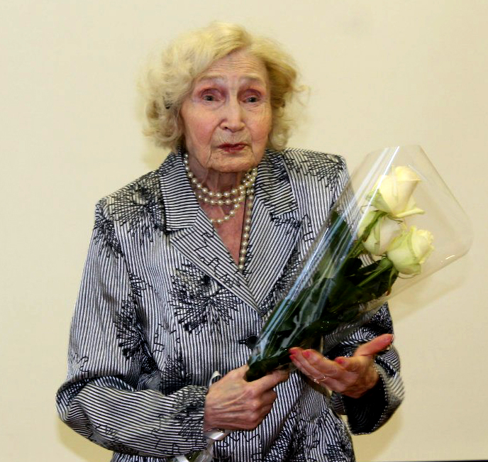 MSU professor Ija Majak